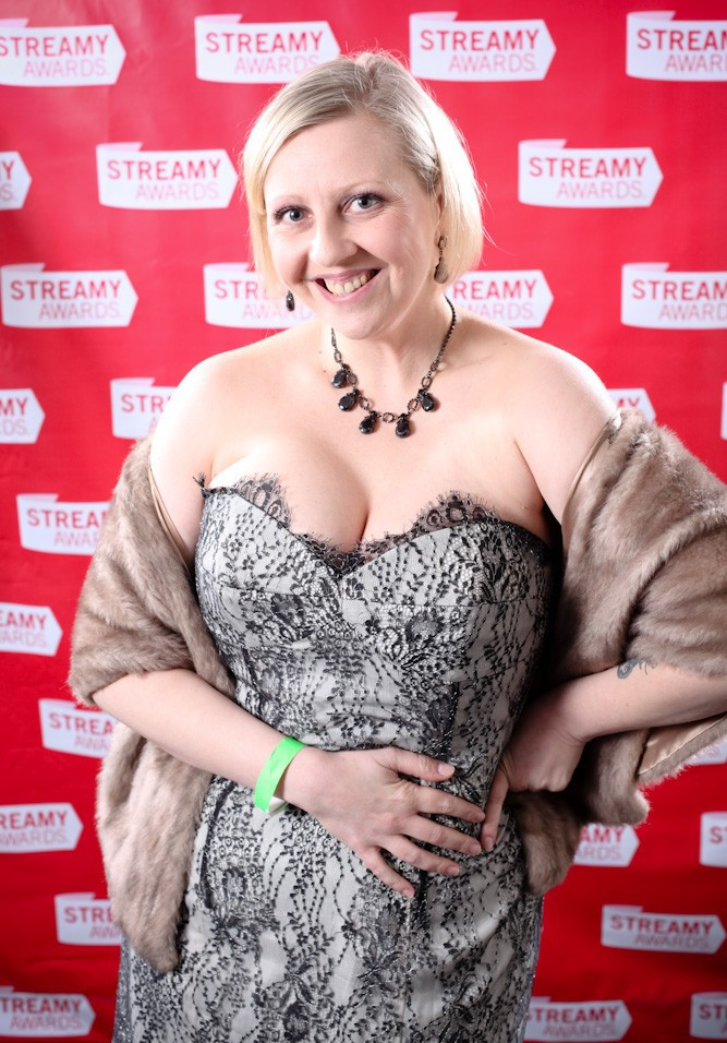 Please feel free to use these photos under a Creative Commons Attribution Share Alike license (which means you may use the photos as long as you also release the photos under a Creative Commons license and attribute the photos to and provide a link back to ) You can learn more about the Sreamy Awards by visiting You can learn more about these photos by visiting our website with our favorite Streamy Awards photos.